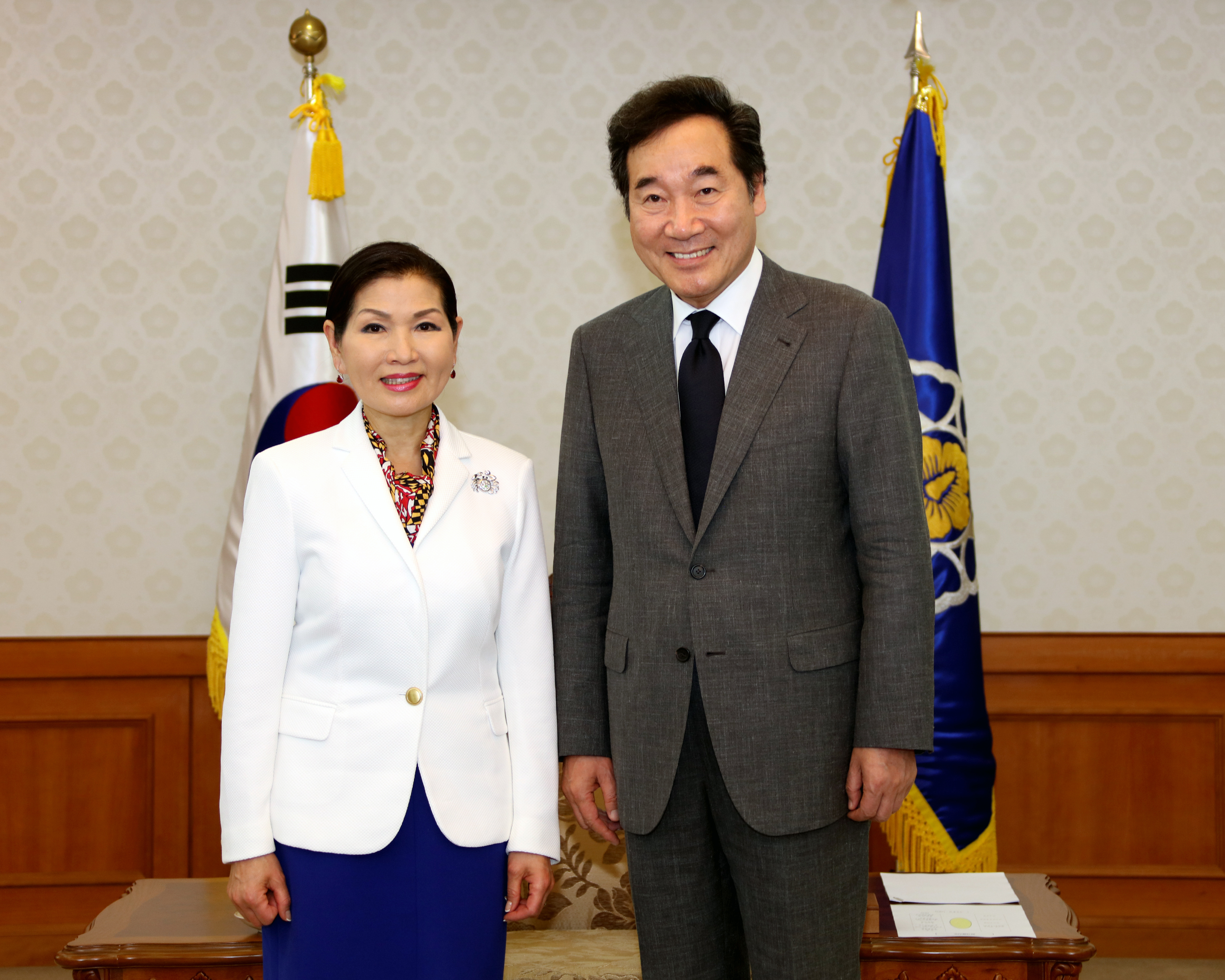 First Lady Yumi Hogan Meets With Korean Prime Minister Lee